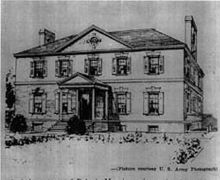 Artist concept of Belvoir Mansion, seat of the Fairfax family in colonial Virginia.